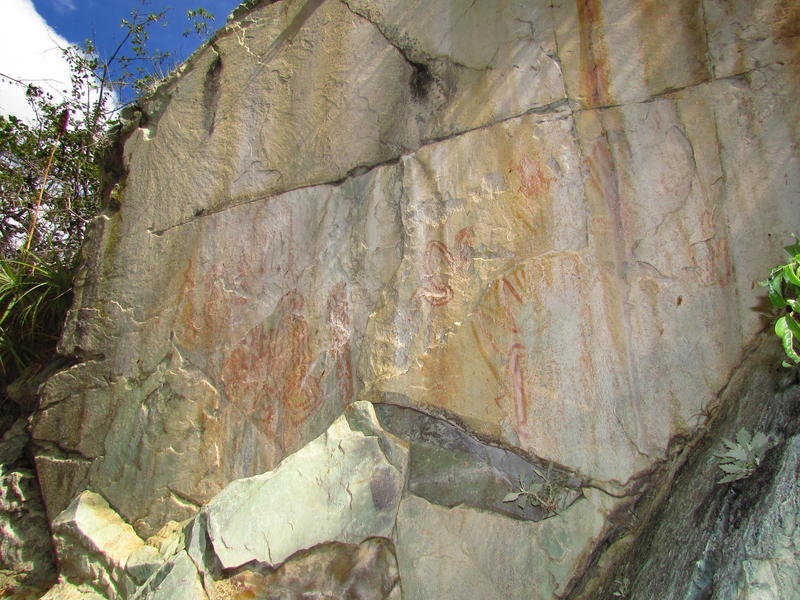 Pintura Rupestre Jaguarari